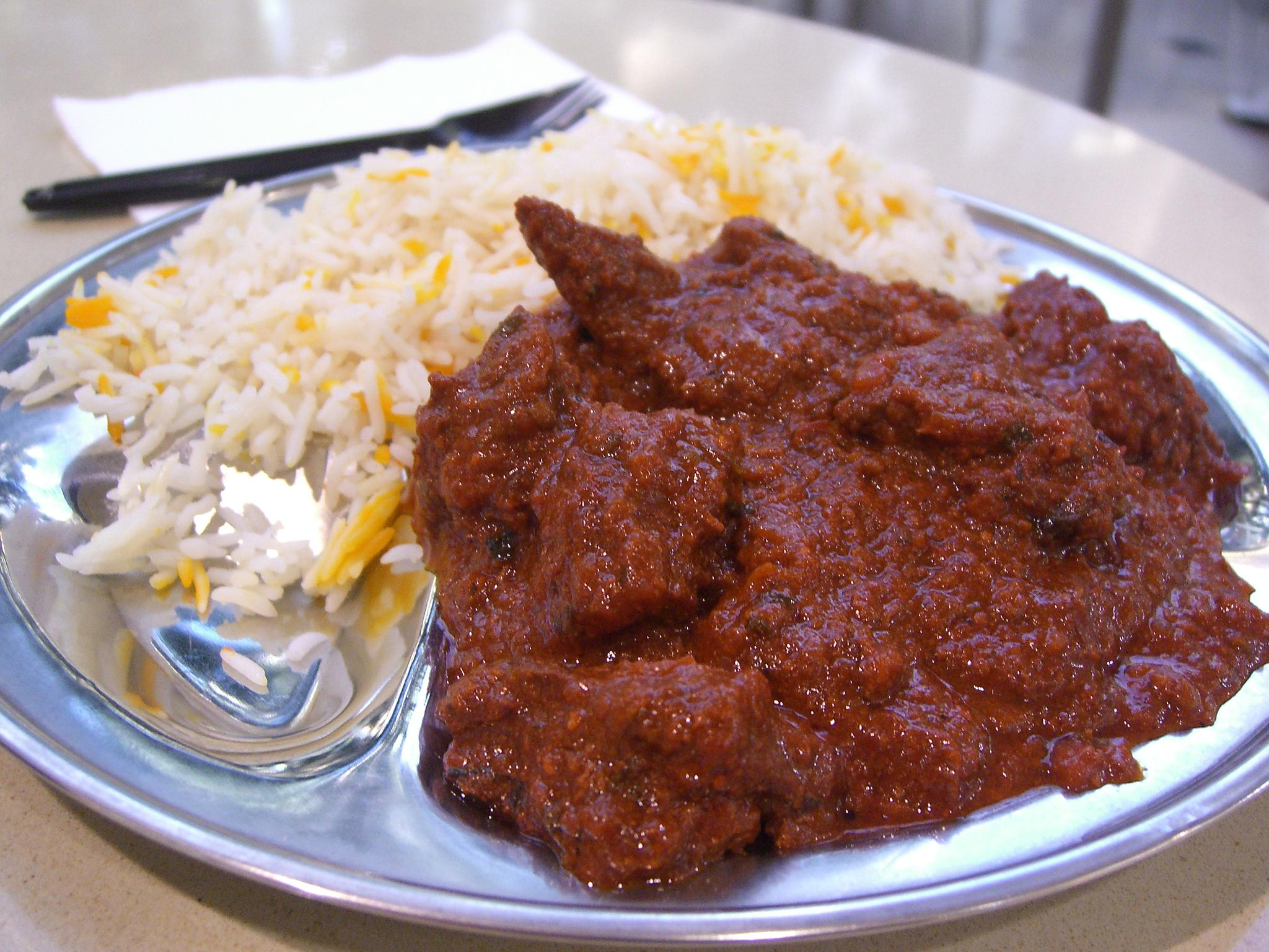 Beef Vindaloo - Chilli Mama, Chadstone AUD6.80 small I had a hankering for spice, lots of spice, and I wanted it hot. The beef vindaloo at Chilli Mama was the answer. Filled with chilli, cardamon, cinnamon and other spices it was a spicy treat indeed! The basmati rice on the other hand wasn't so great. It had a sulphurous pong to it like a faint whiff of rotten eggs... Chilli Mama - Malaysian Indian Food (03) 9568 2263 Basement Floor Food Court Chadstone Shopping Centre 1341 Dandenong Road Chadstone, VIC 3148 Chilli Mama - Chadstone Shopping Centre